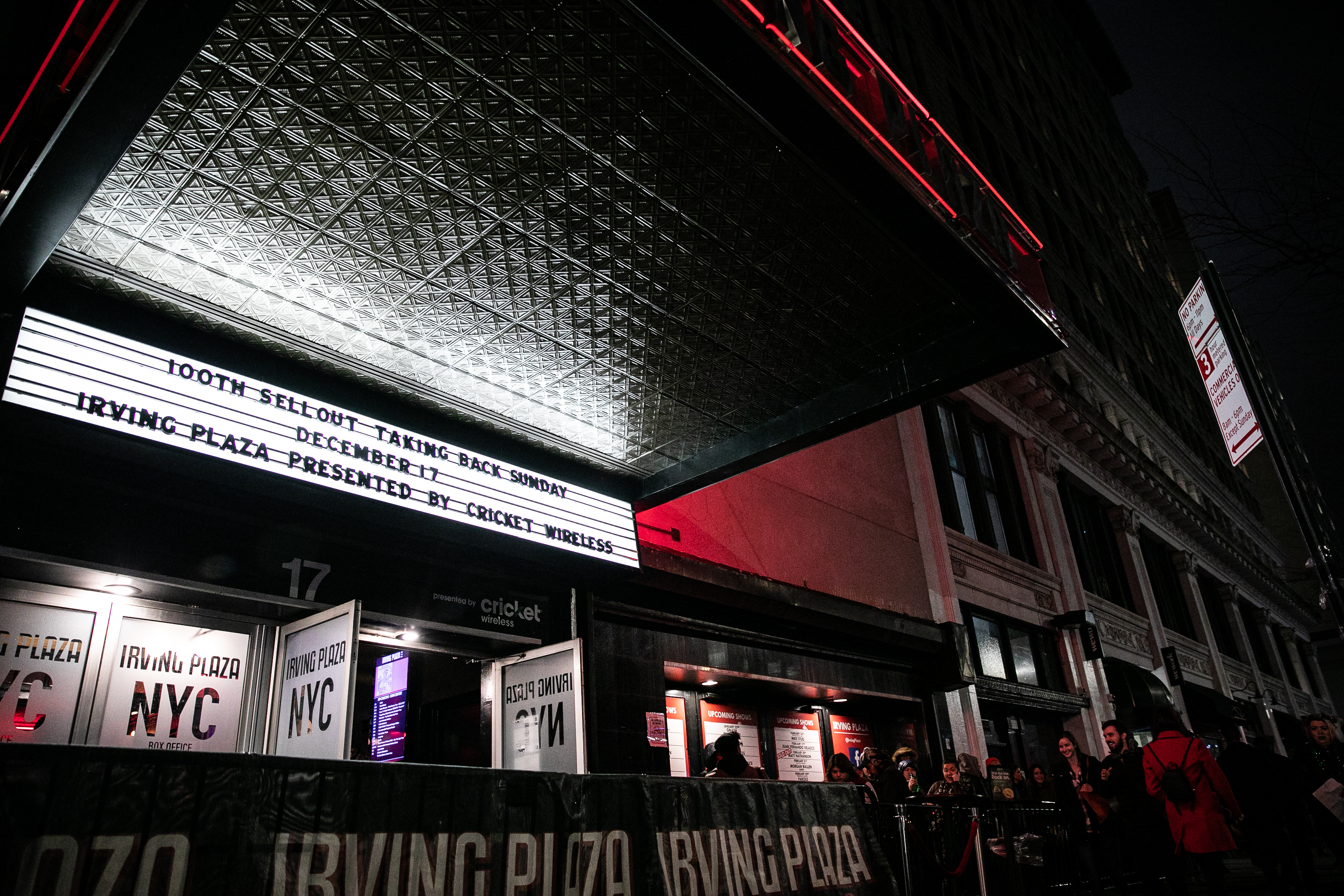 Celebrating 100 sold out shows at Irving Plaza, 12/17/18